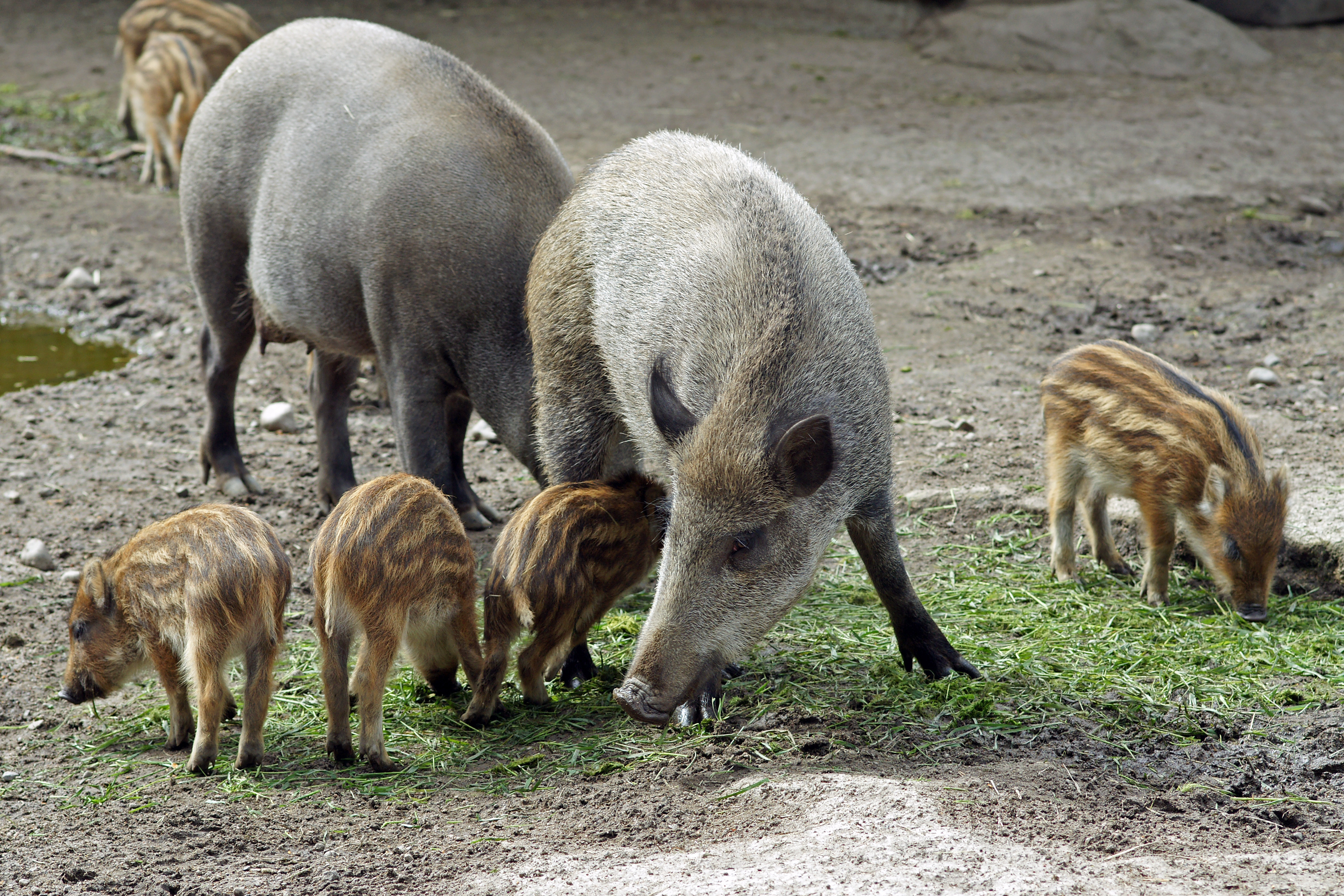 Wild boars (Sus scrofa) in Ähtäri Zoo.